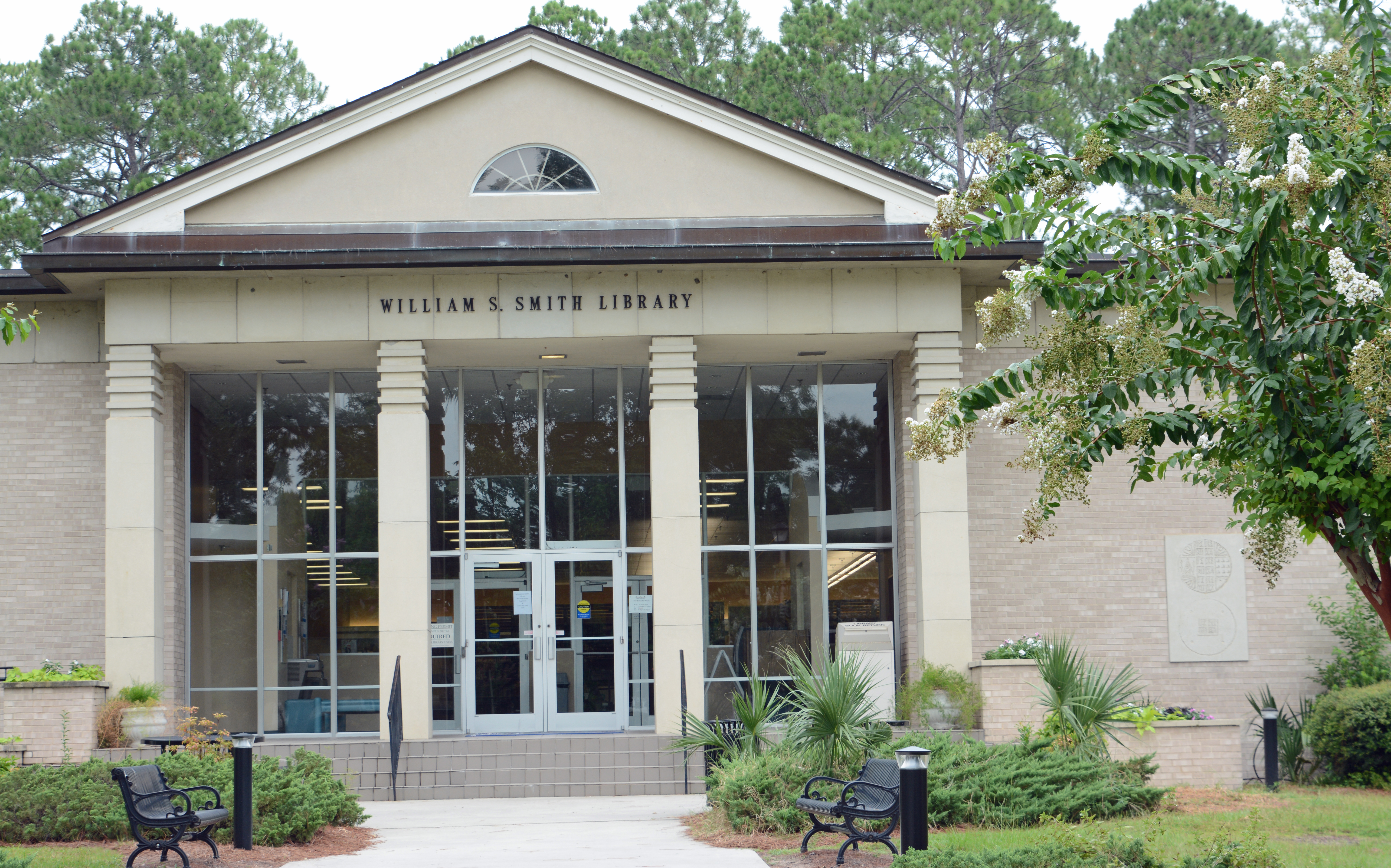 William Smith Library, South Georgia State College, Douglas, Georgia